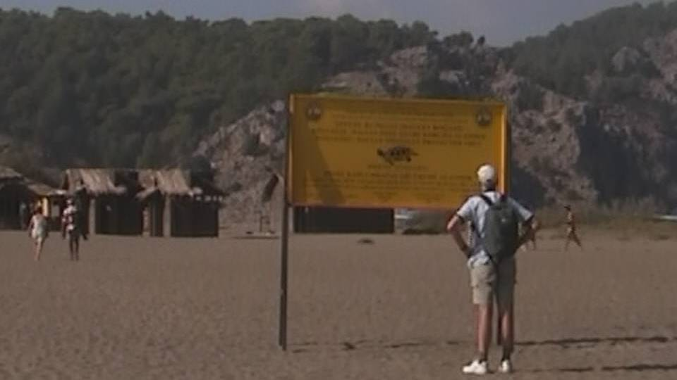 Information board at Iztuzu Beach about loggerhead turtle protection measures